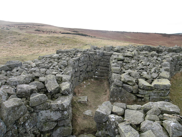 Stairs to nowhere. Stone stairs at Edin's Hall Broch.